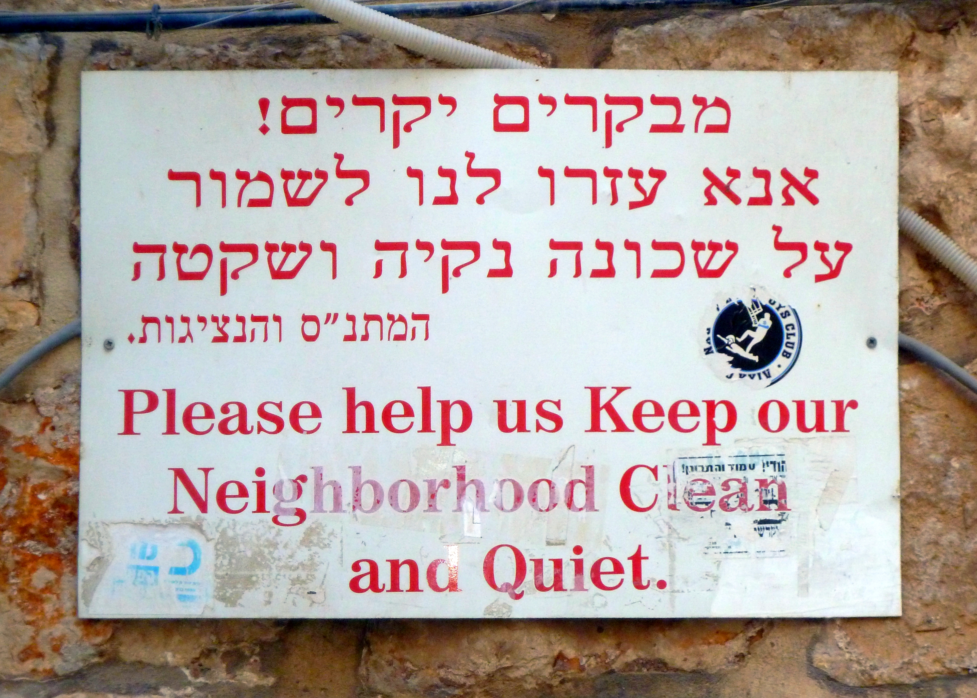 Old Jerusalem corner of Ha-Bikurim and Shonei Halachot, Clean and Quiet sign. En dessous de la plaque de rue "Ha-Bikurim Road" on peut voir un panneau sur lequel est écrit : מבקרים יקרים אנא עזרו לנו לשמור על שכונה נקיה ושקטה המתנ״ס והנציגות [Dear Visitors] Please help us Keep our Neighborhood Clean and Quiet